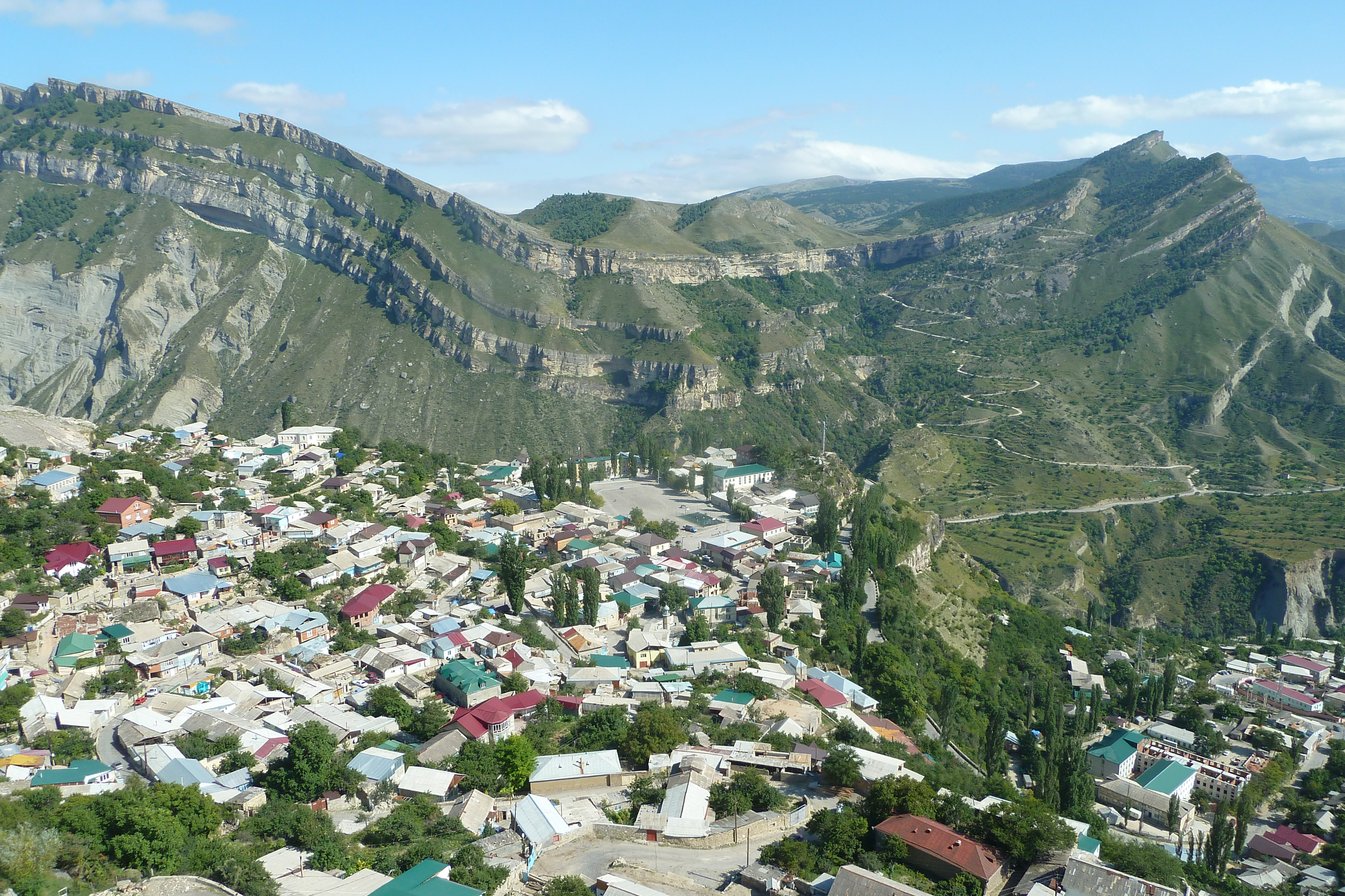 The village Gunib in Dagestan, seen from above.